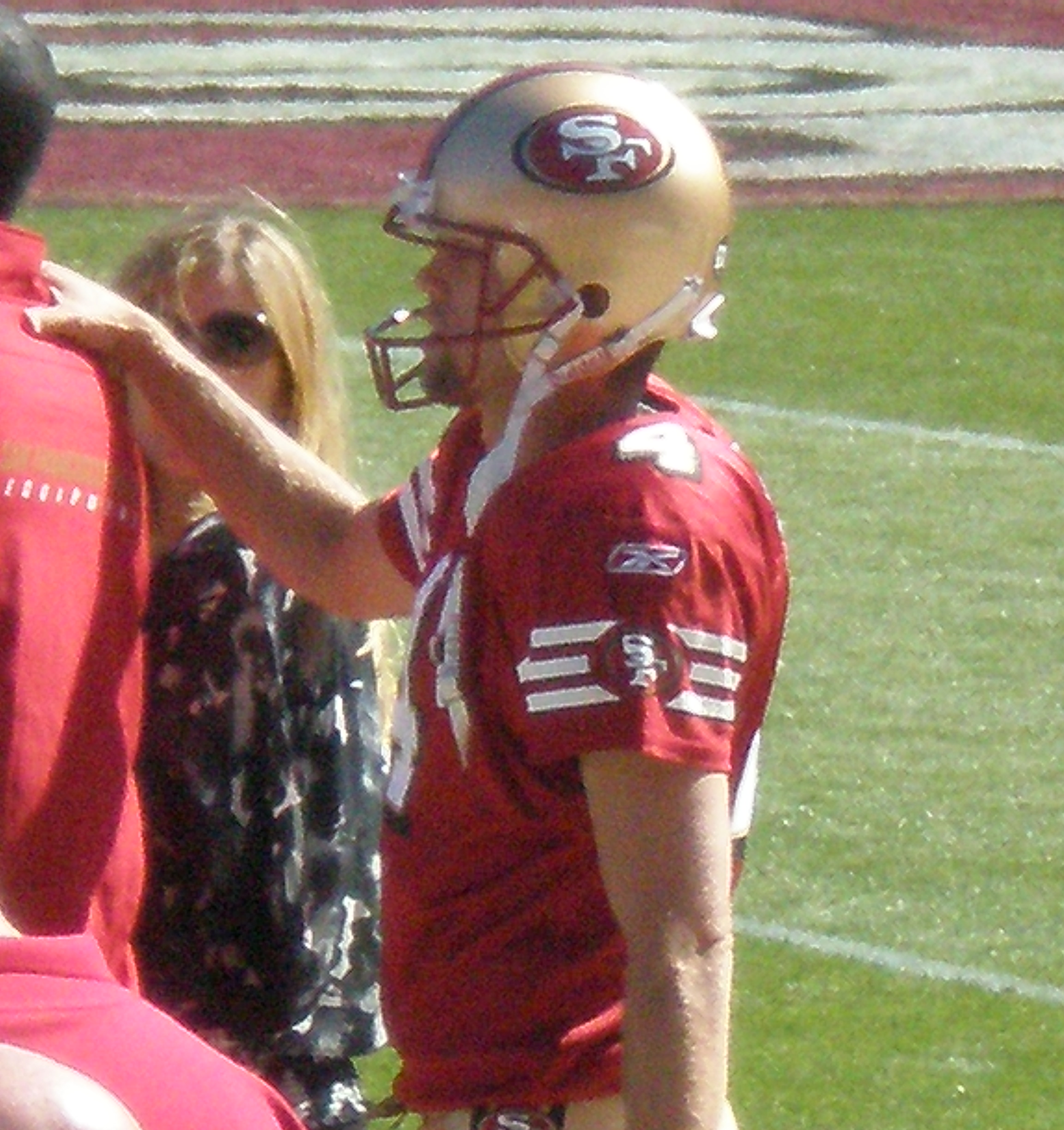 San Francisco 49ers punter Andy Lee on the sidelines of Bill Walsh Field at Candlestick Park prior to a regular season game against the Philadelphia Eagles. The Eagles won 40-26.